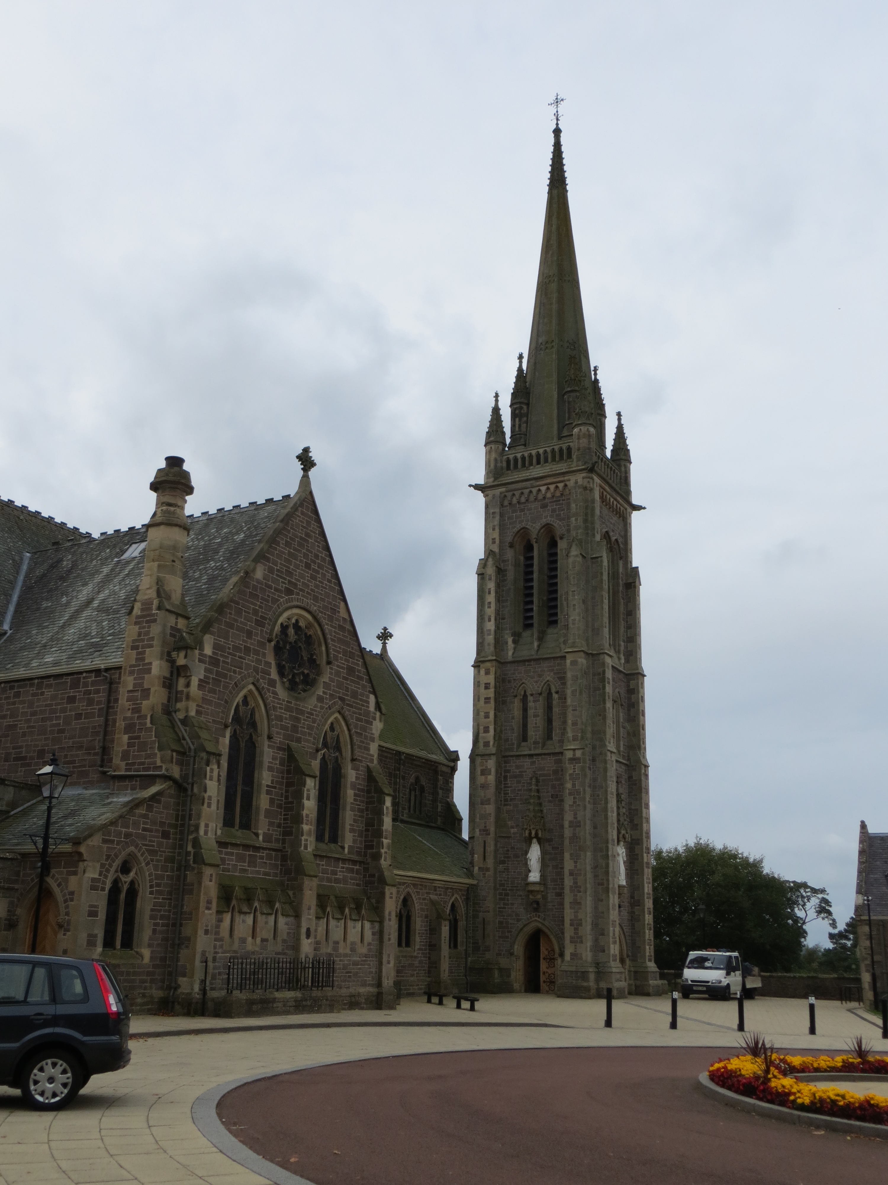 The Church of St Mary at Lanark